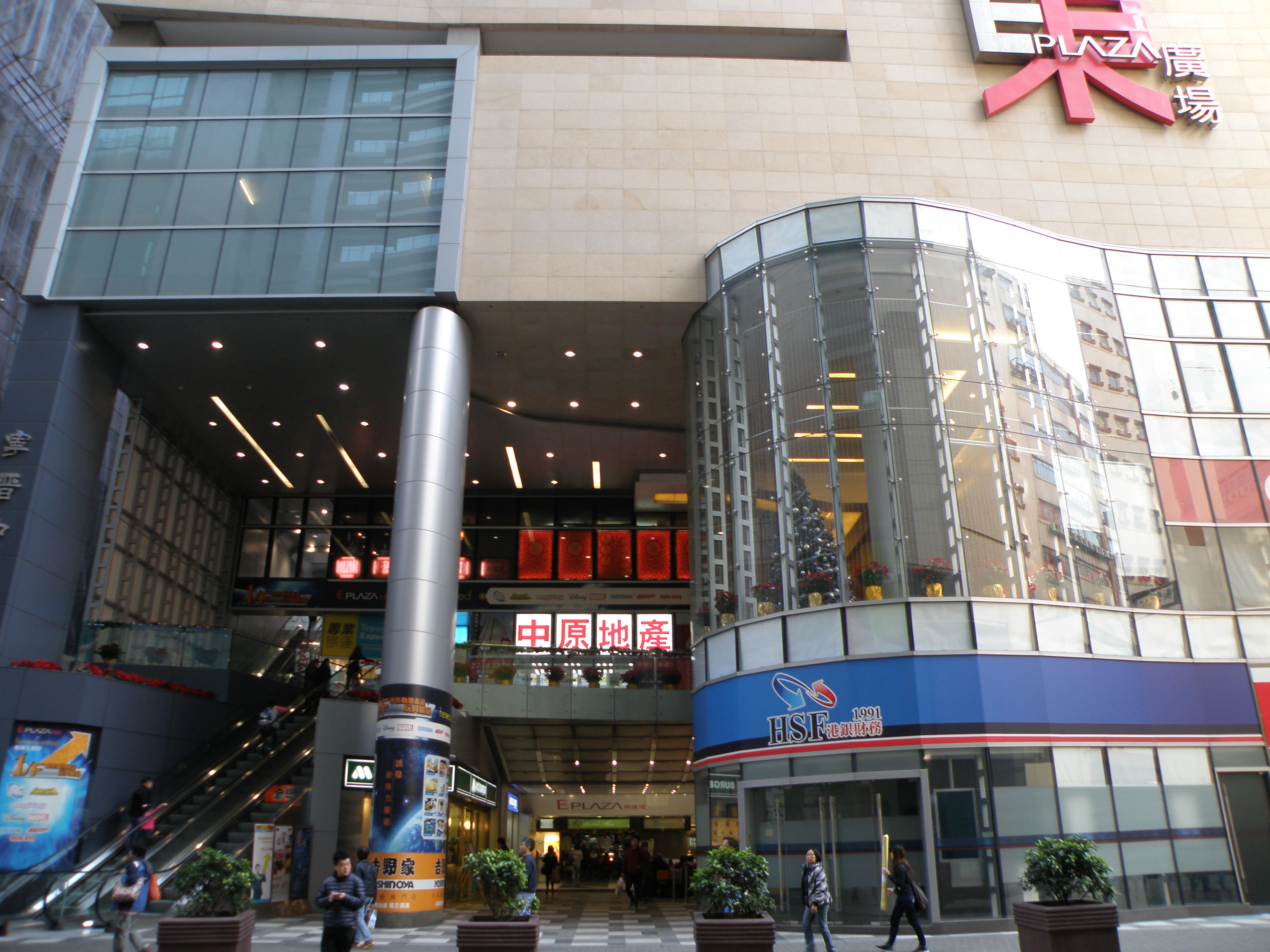 E Plaza in Kwun Tong, Hong Kong.